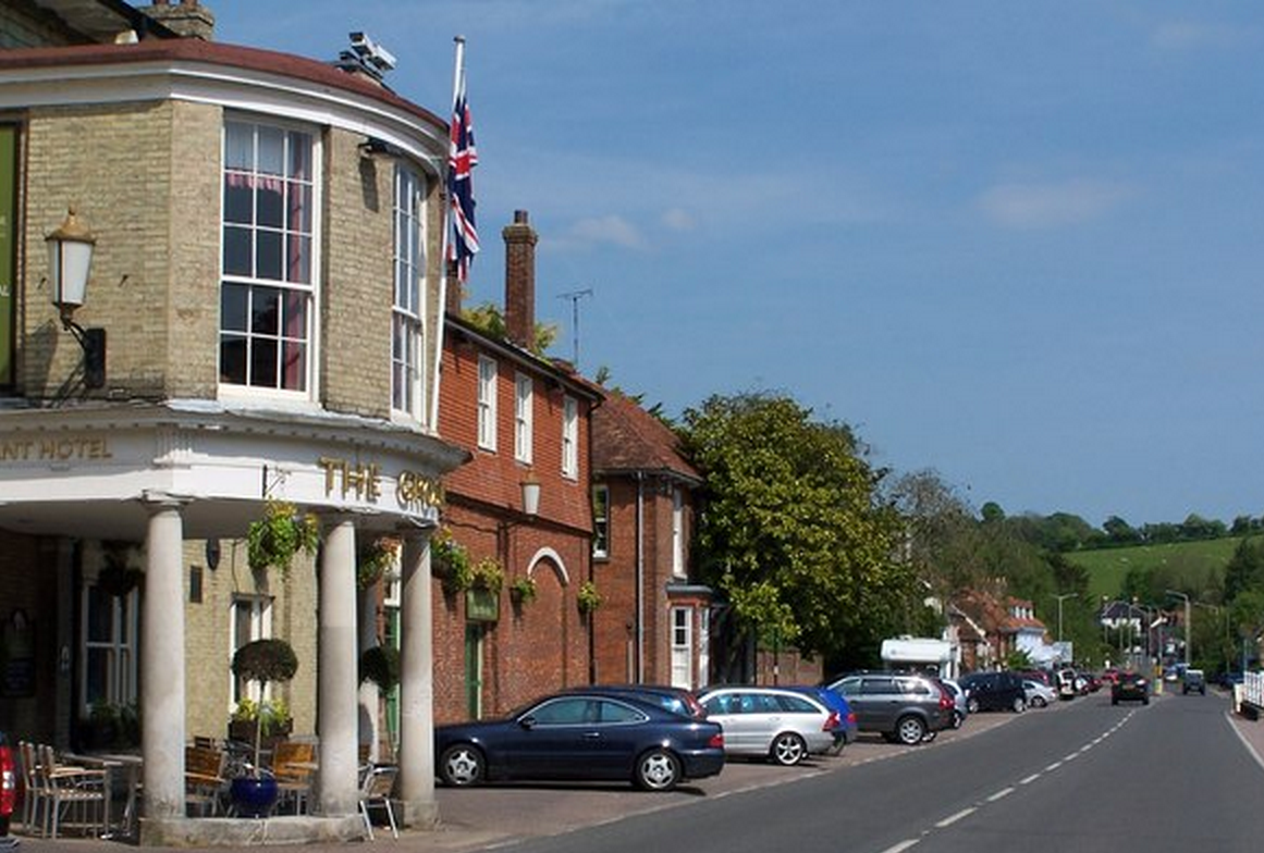 Stockbridge High Street looking east from outside the Grosvenor Hotel : modified from .uk - image (cropped to remove some cars and road), so made more suitable for article illustration in WP